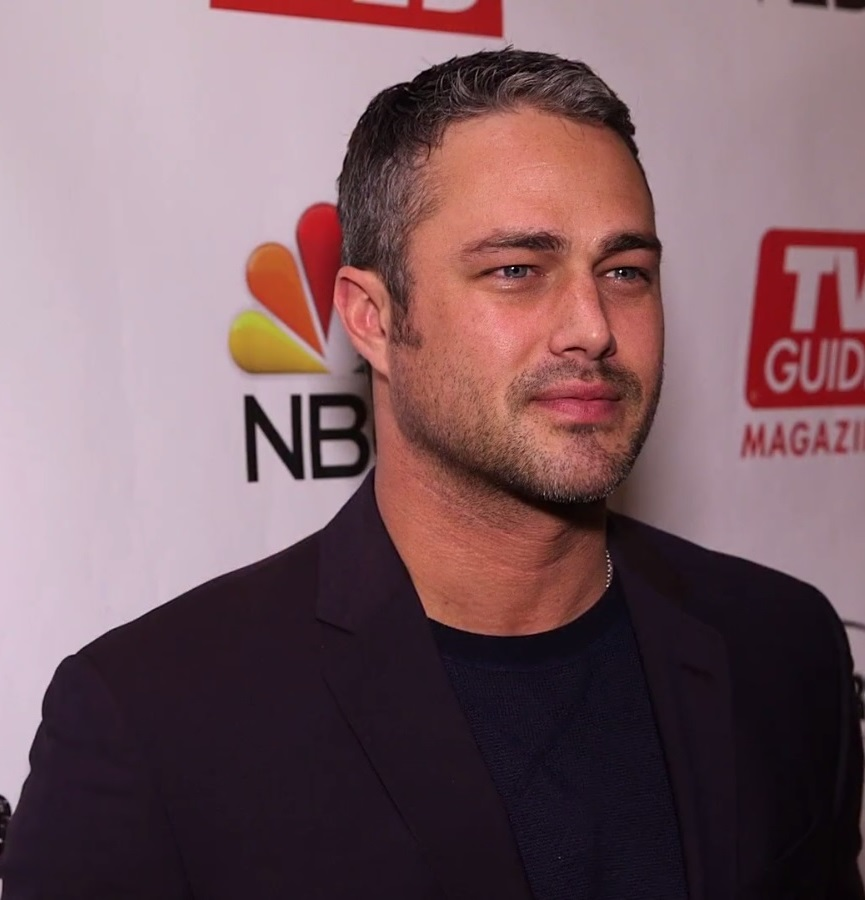 American actor Taylor Kinney interviewed for Behind The Velvet Rope TV.